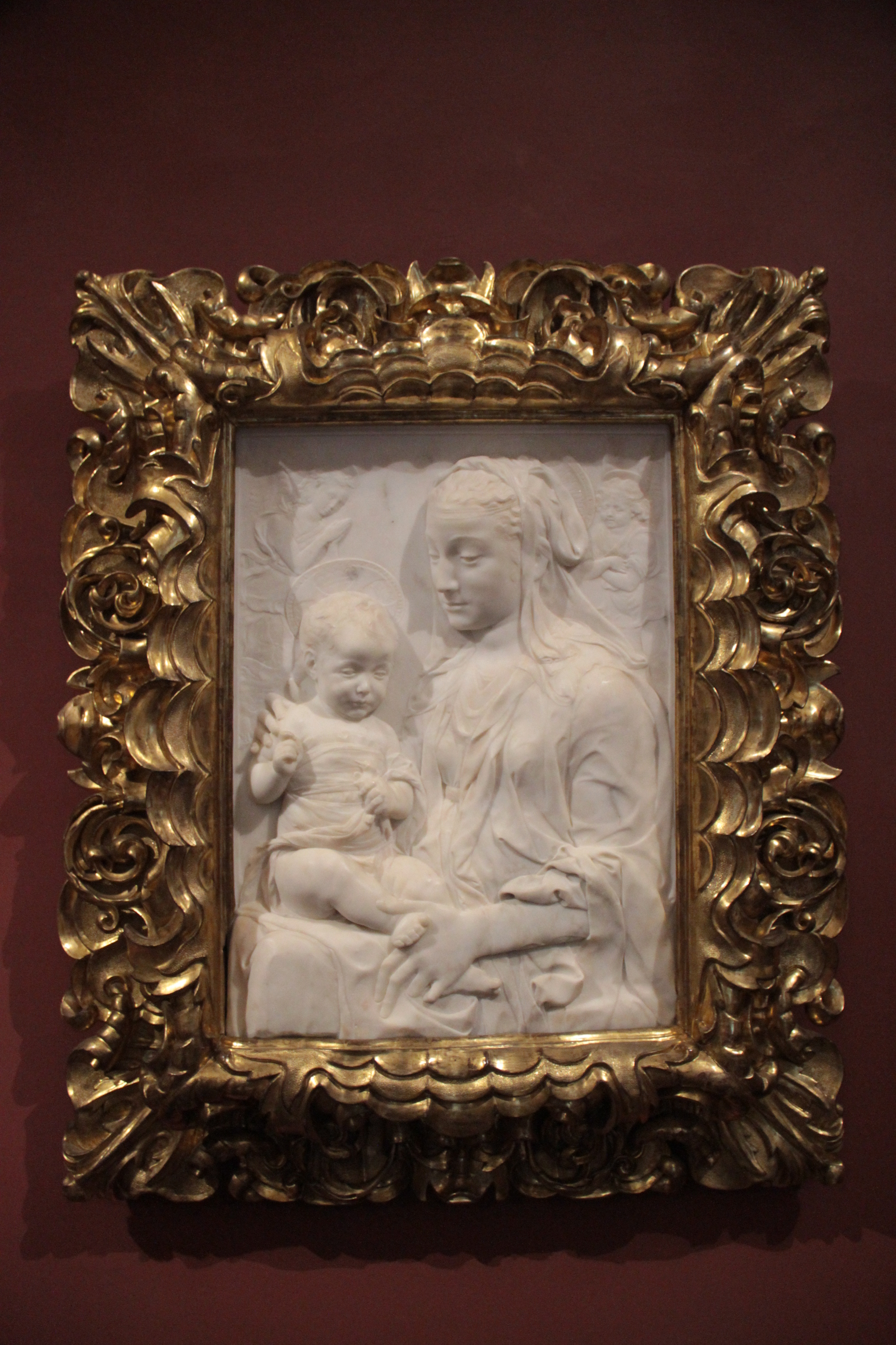 This relief marks an apogee in the work of Rossellino. He succeeds in a masterly manner in depicting a close and heartfelt connection between mother and child, paying heed to the scenes aspect of Salvation through an incomparably graceful attitude and a certain reticent dignity in his personages. This expressiveness is matched by a kind of monumentality of mother and child, who nearly fill the entire surface of the relief. The subtly treated surface appears as if painted with a chisel. The relief greatly influenced many Florentine artists of the Early Renaissance, first and foremost Verrocchio.